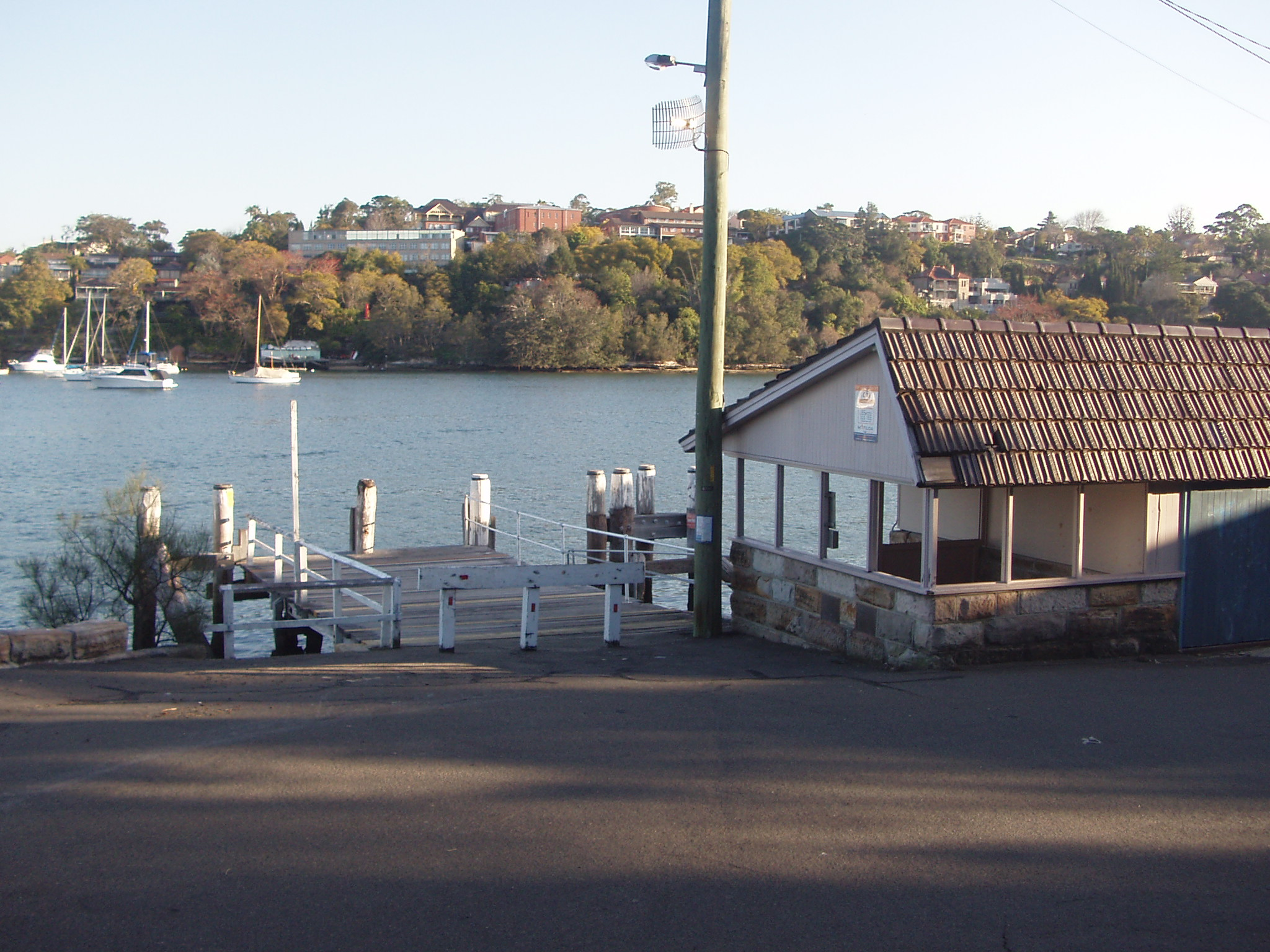 Longueville Wharf, Sydney, Australia.